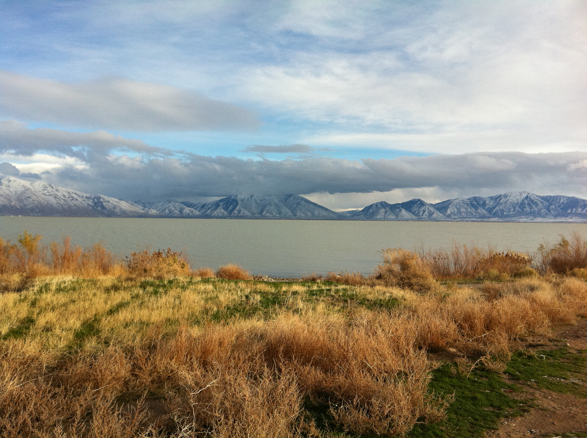 500px provided description: Across A Lake